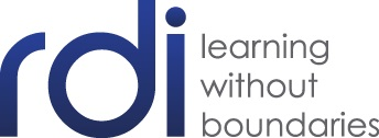 Logo of Resource Development International (RDI) which became :Arden University as it looked in 2015 prior to the name change